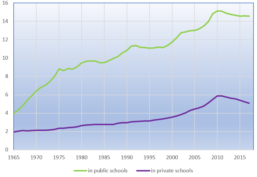 enrollment in public and private colleges/universities in the United States, 1965-2017, in millions; data